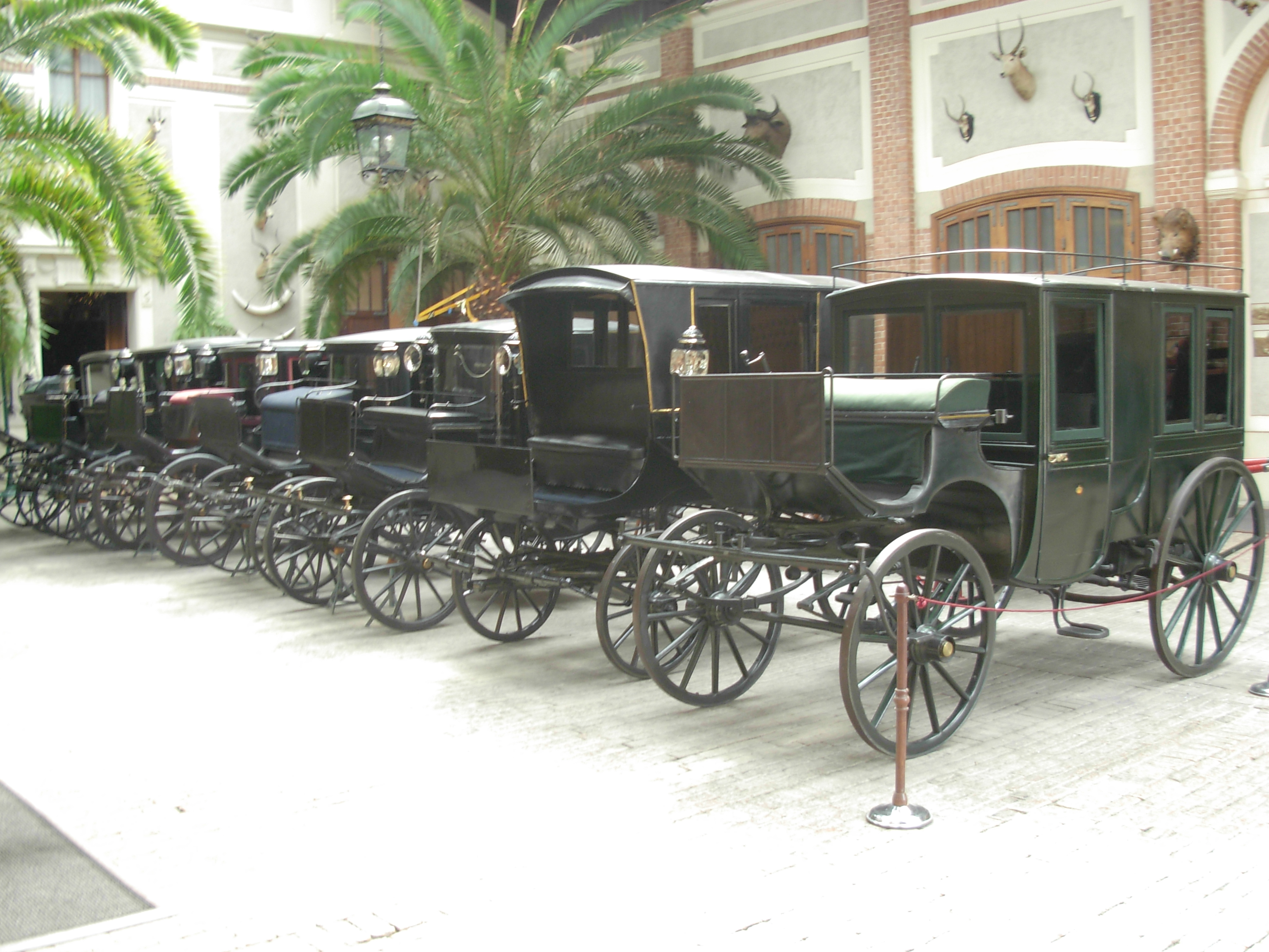 Łańcut Castle and neighbourhood. Many photos courtesy of Łańcut Museum staff.